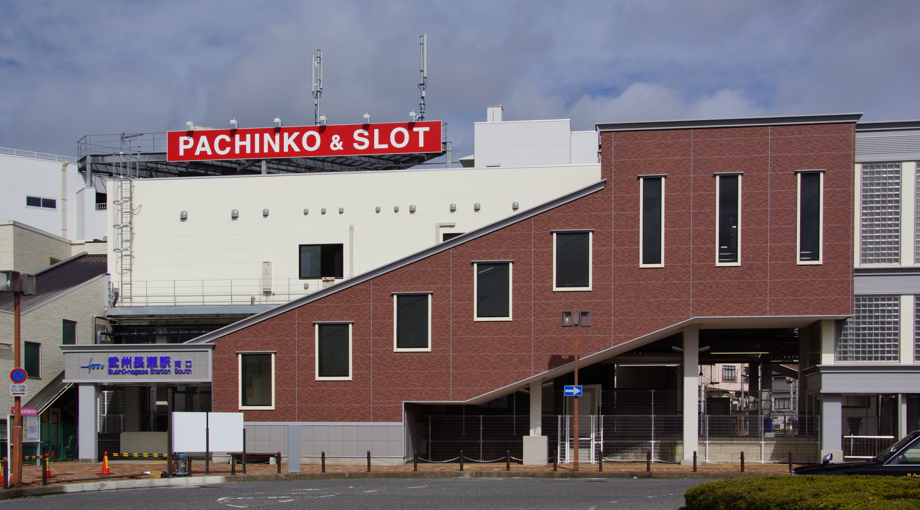 The south entrance of Bushu-Nagase Station on the Tobu Ogose Line in Moroyama, Saitama, Japan